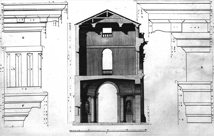 Palazzo del Capitanio in Vicenza, by Andrea Palladio. Drawing by Ottavio Bertotti Scamozzi, 1776.